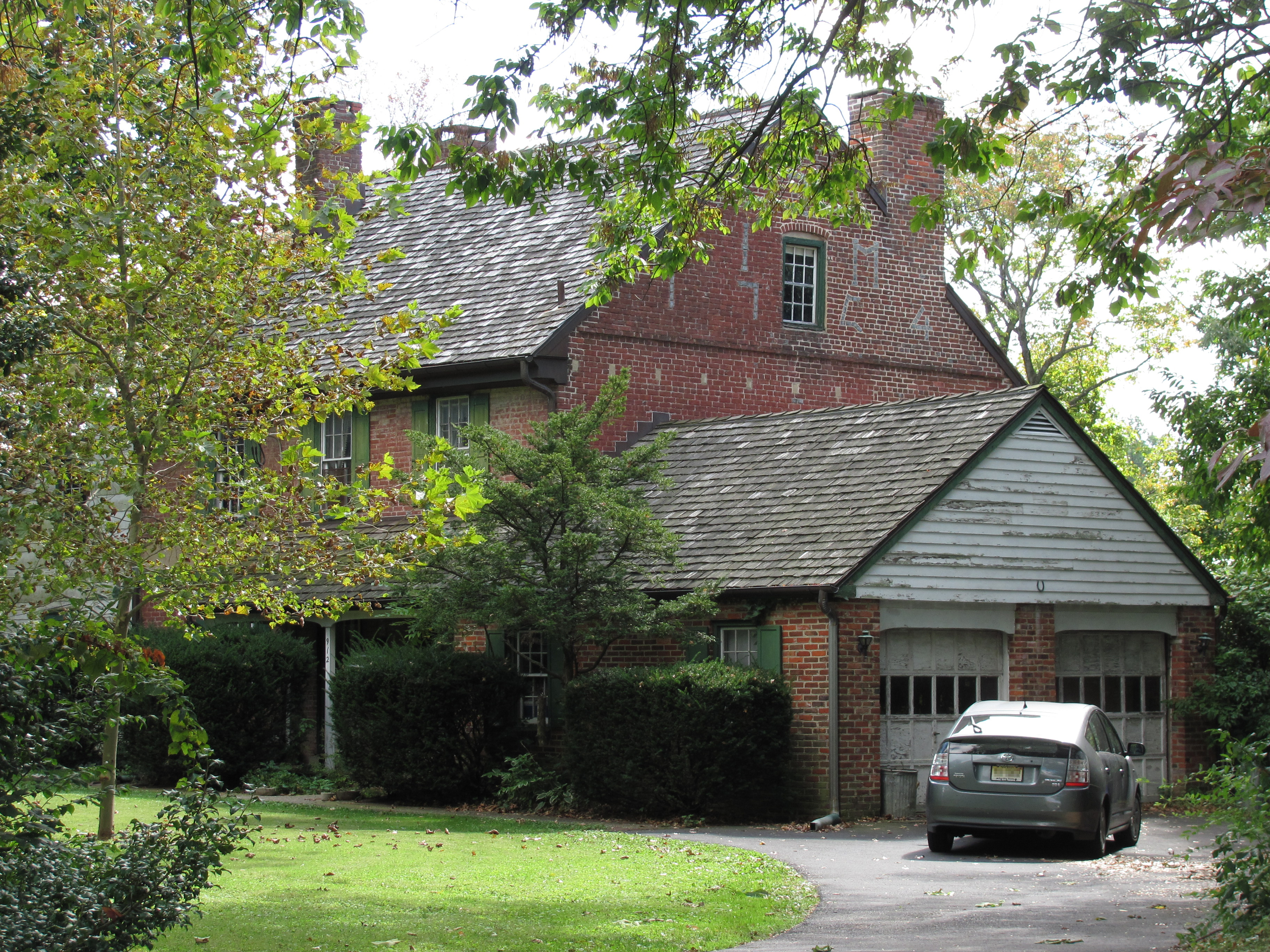 View of Thackara House, 912 Eldridge Ave. Collingswood, New Jersey, looking south from Eldridge Avenue.